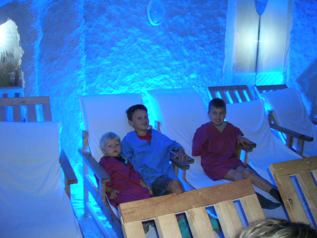 Therapy room of salt water saturated air in the pediatric clinic Gintaras in Palanga (Lithuania)